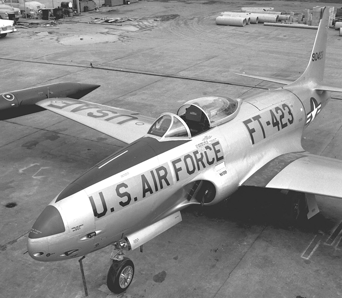 AEMCO photo at Oakland, CA.